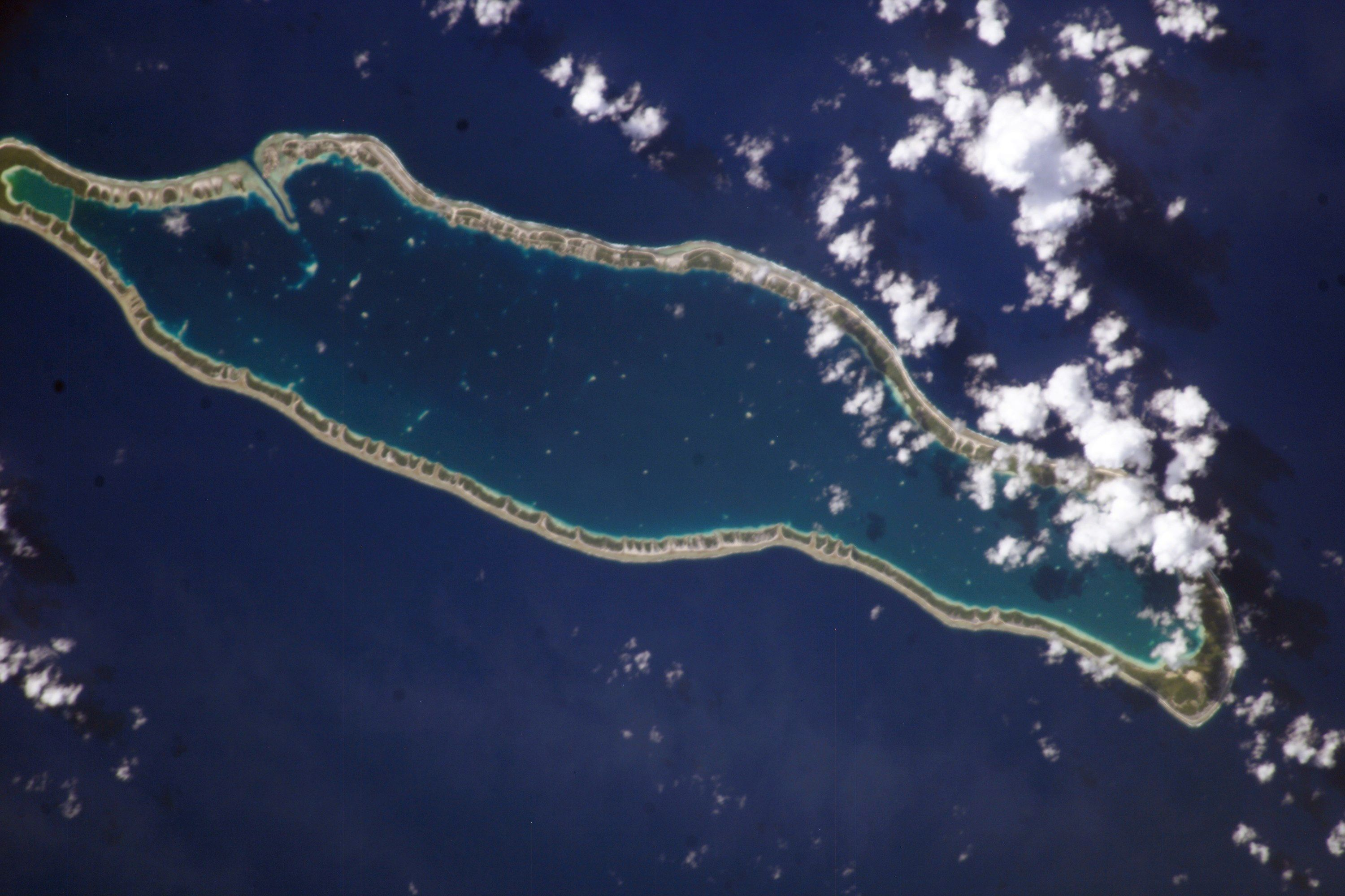 NASA astronaut image of Takaroa Atoll (Tuamotu Archipelago, French Polynesia) in the Pacific Ocean